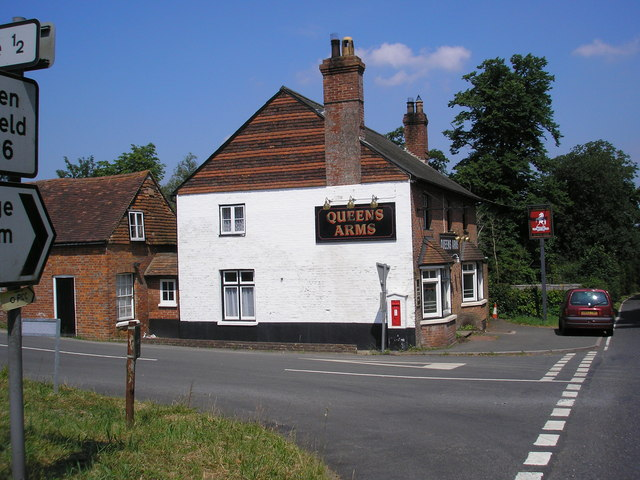 The Queens Arms, Cowden Pound, Kent. This pub is only open between 5 and 10.30, so your photographer was unable to get a lunchtime pint, but several reasons suggest that an evening visit would be in order: (1) It is in Kent, (2) the beer on offer is Adnam's of Suffolk, (3) notices outside state NO LAGER IS SOLD HERE, and NO CHILDREN'S ROOM. I understand that this pub was on an old drovers route when Welsh cattle were driven into Kent for fattening before going to market in London. The drovers probably planted the fir tree as a signpost. I am indebted to John Trimmer for this information.